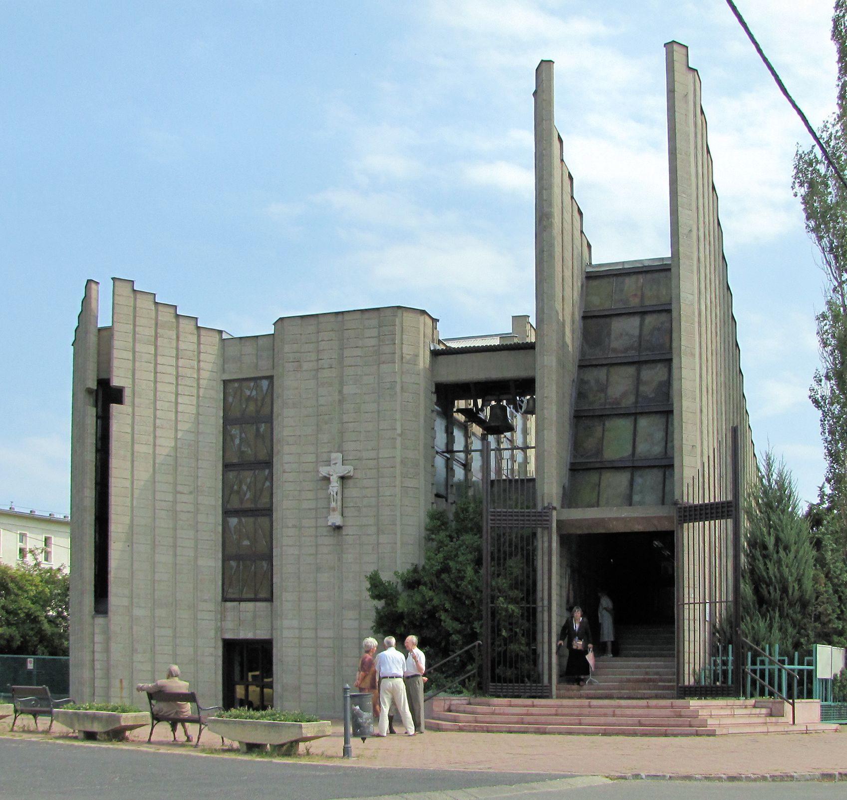 All Saints Church, Budapest District XII